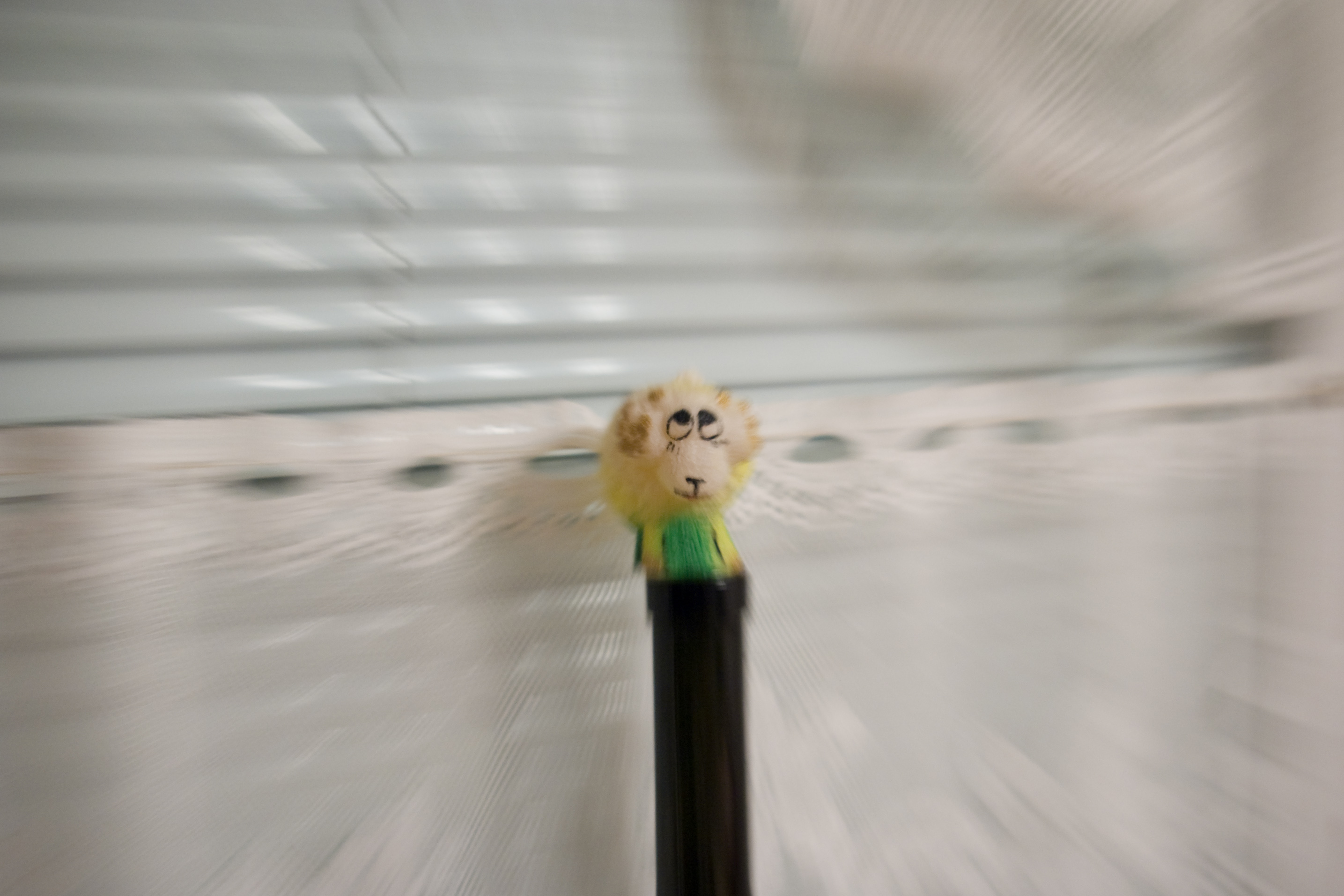 Zoom-effect example